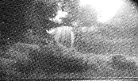 Operation Redwing, Zuni Event. Mushroom cloud